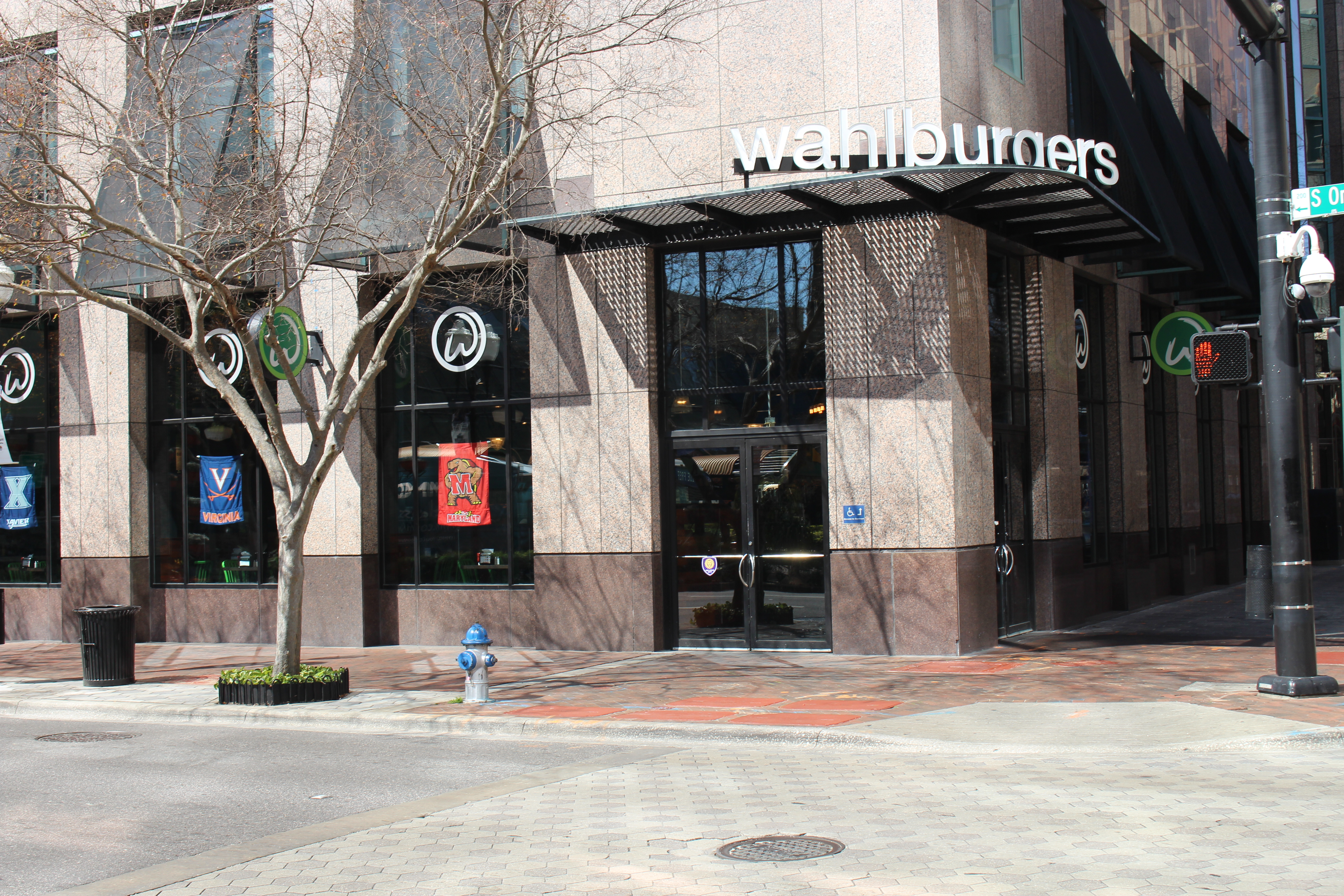 Wahlburgers, SunTrust Center, 200 S Orange Ave, Orlando, Orange County, Florida